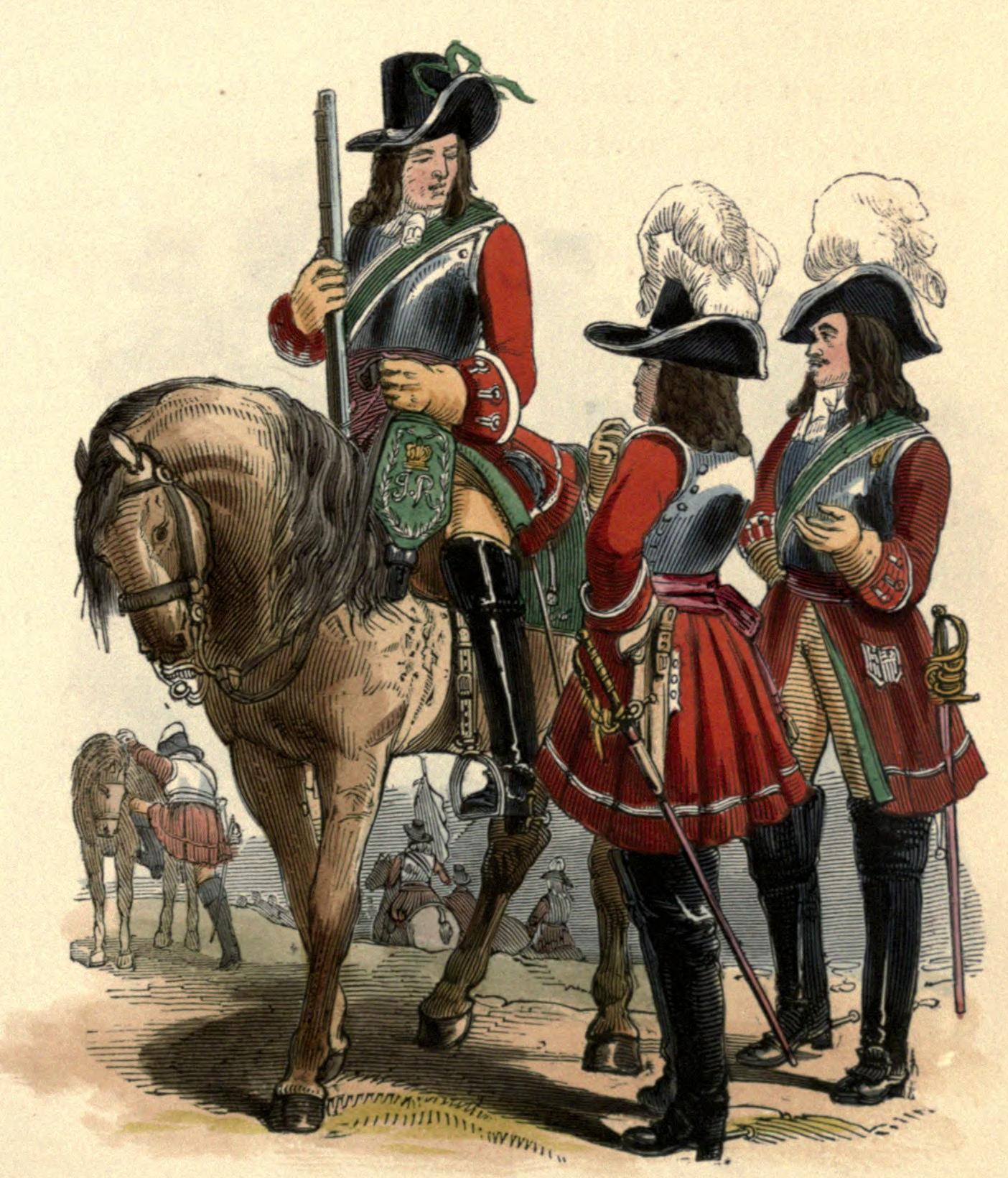 4th Regiment of Horse, 1687. Constituted as the 3rd Dragoon Guards in 1746.